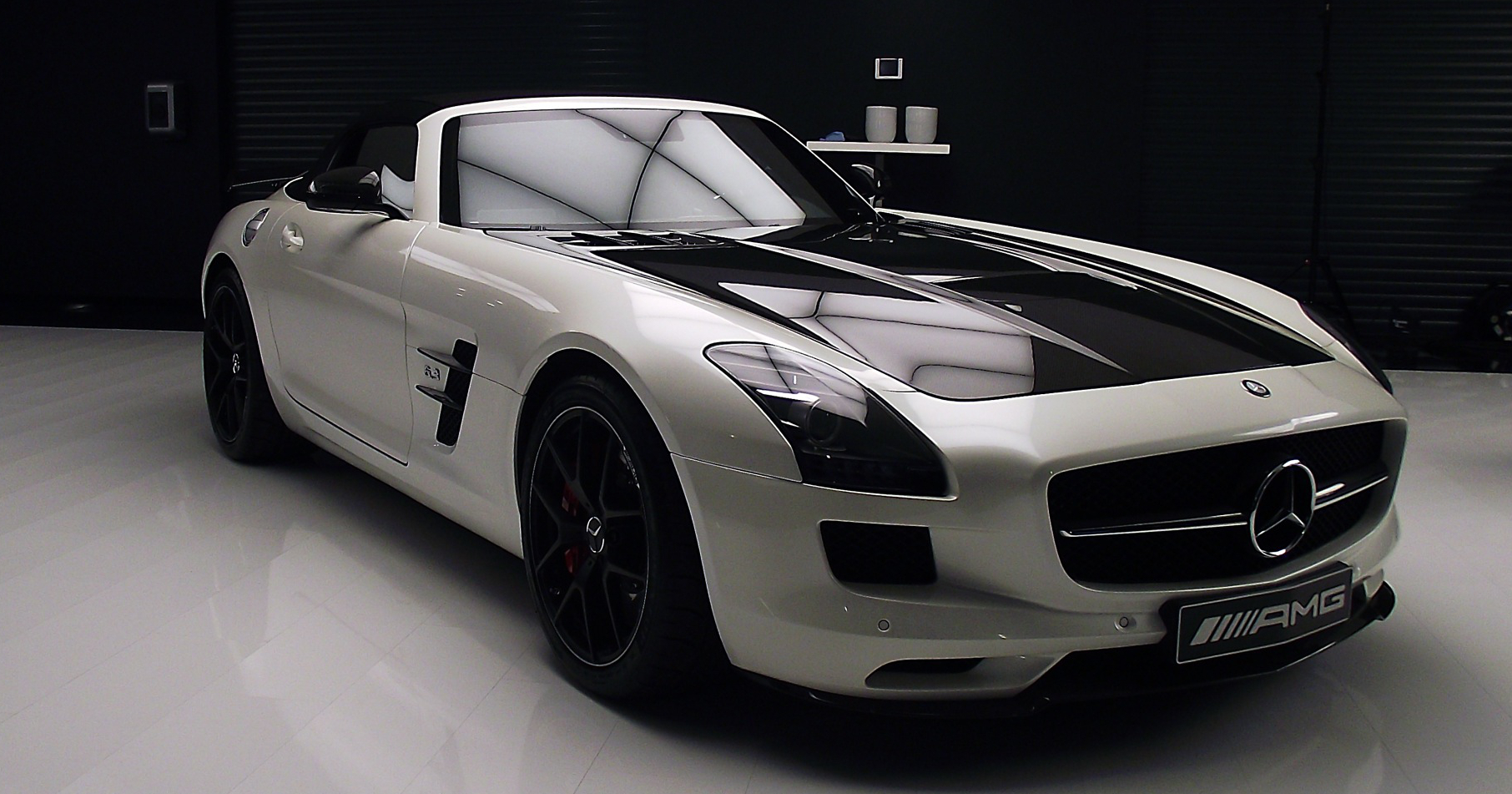 Mercedes-Benz SLS AMG GT Roadster Final Edition front view